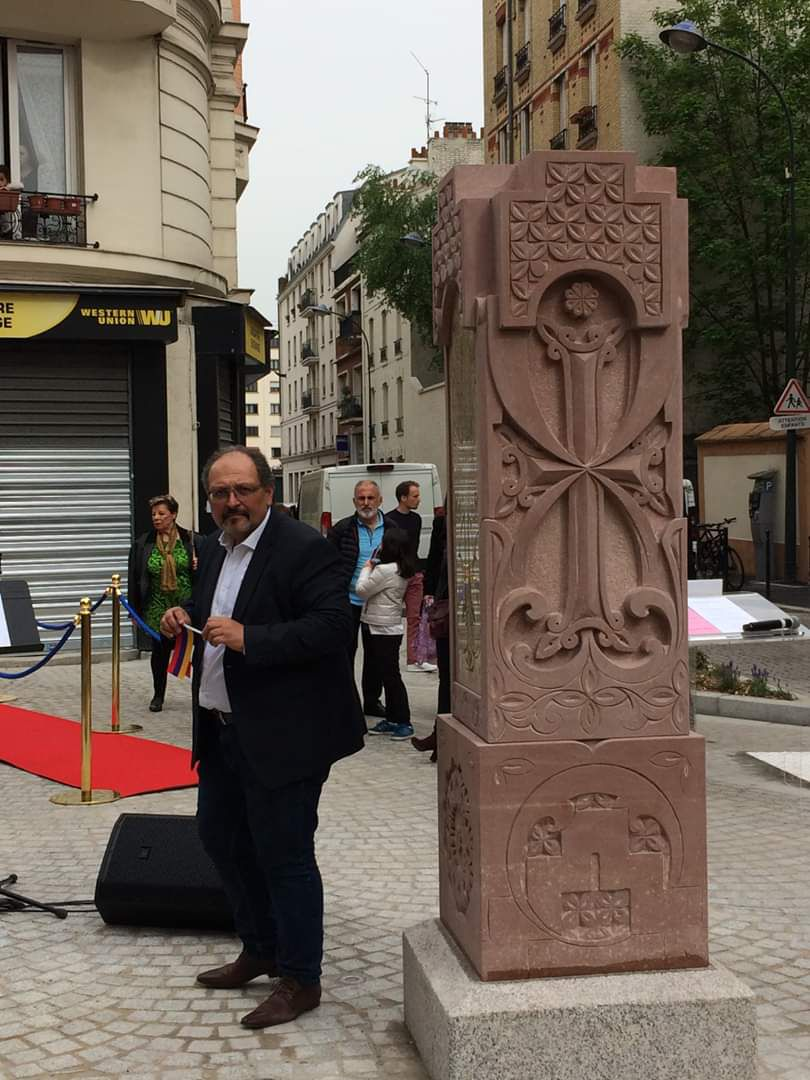 "Memorial Khachkar"- dedicated to the memory of the victims of the Armenian Genocide situated in the city of Clichy on Charles Aznavour Square, 2019, sculptor Harutyun Ekmalyan